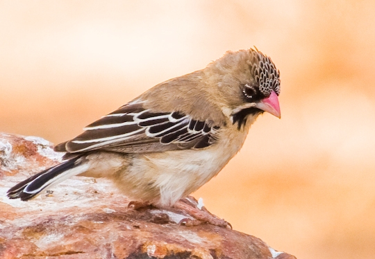 Scaly-feathered Weaver (Sporopipes squamifrons) in Etosha National Park